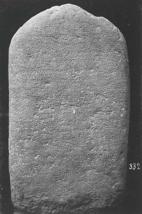 Stone with inscriptions